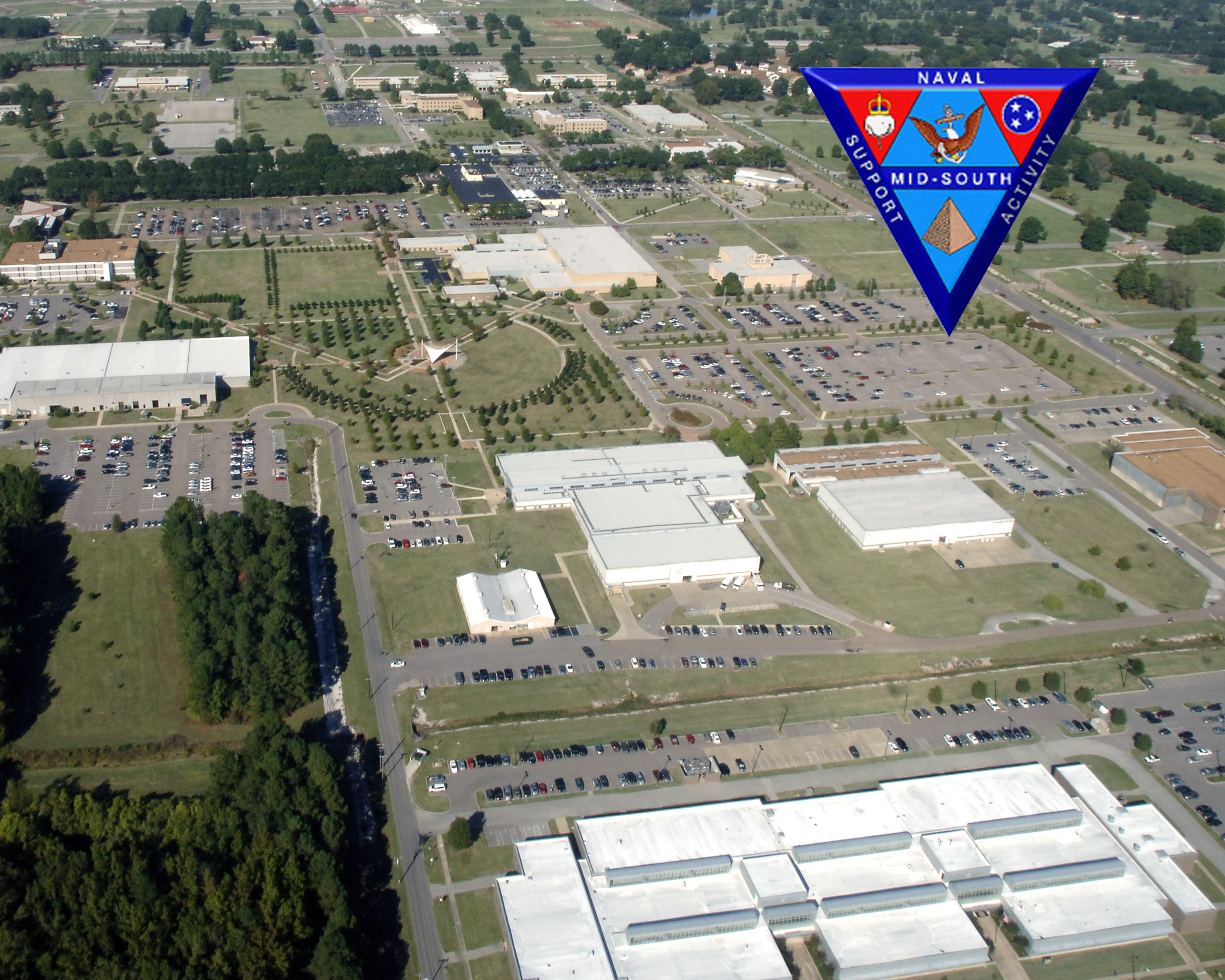 Aerial photo of Naval Support Activity Mid-South